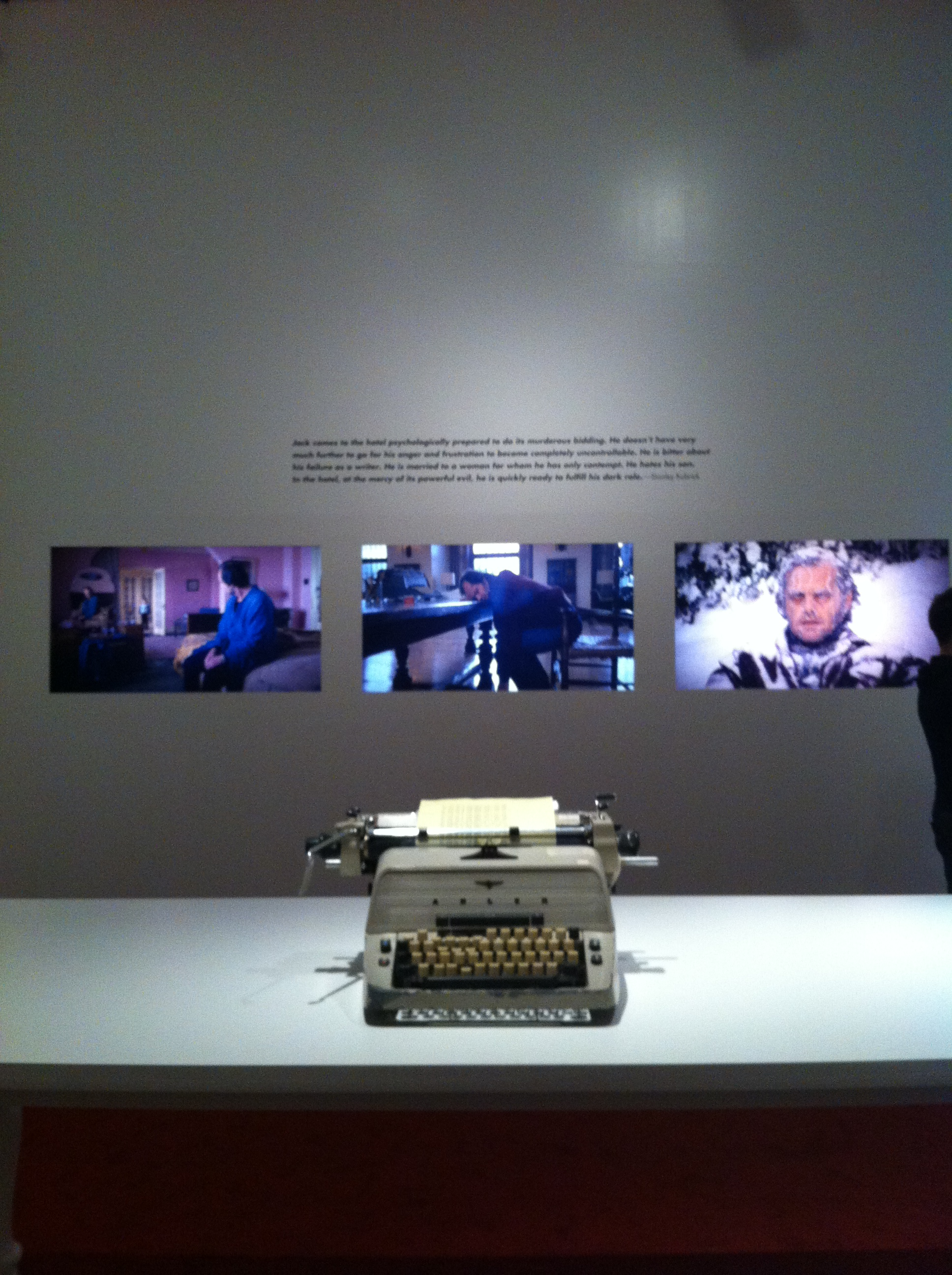 Stanley Kubrick exhibit at Los Angeles County Museum of Art